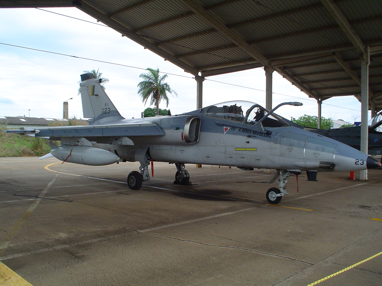 Italian-Brazilian AMX A-1 aircraft.